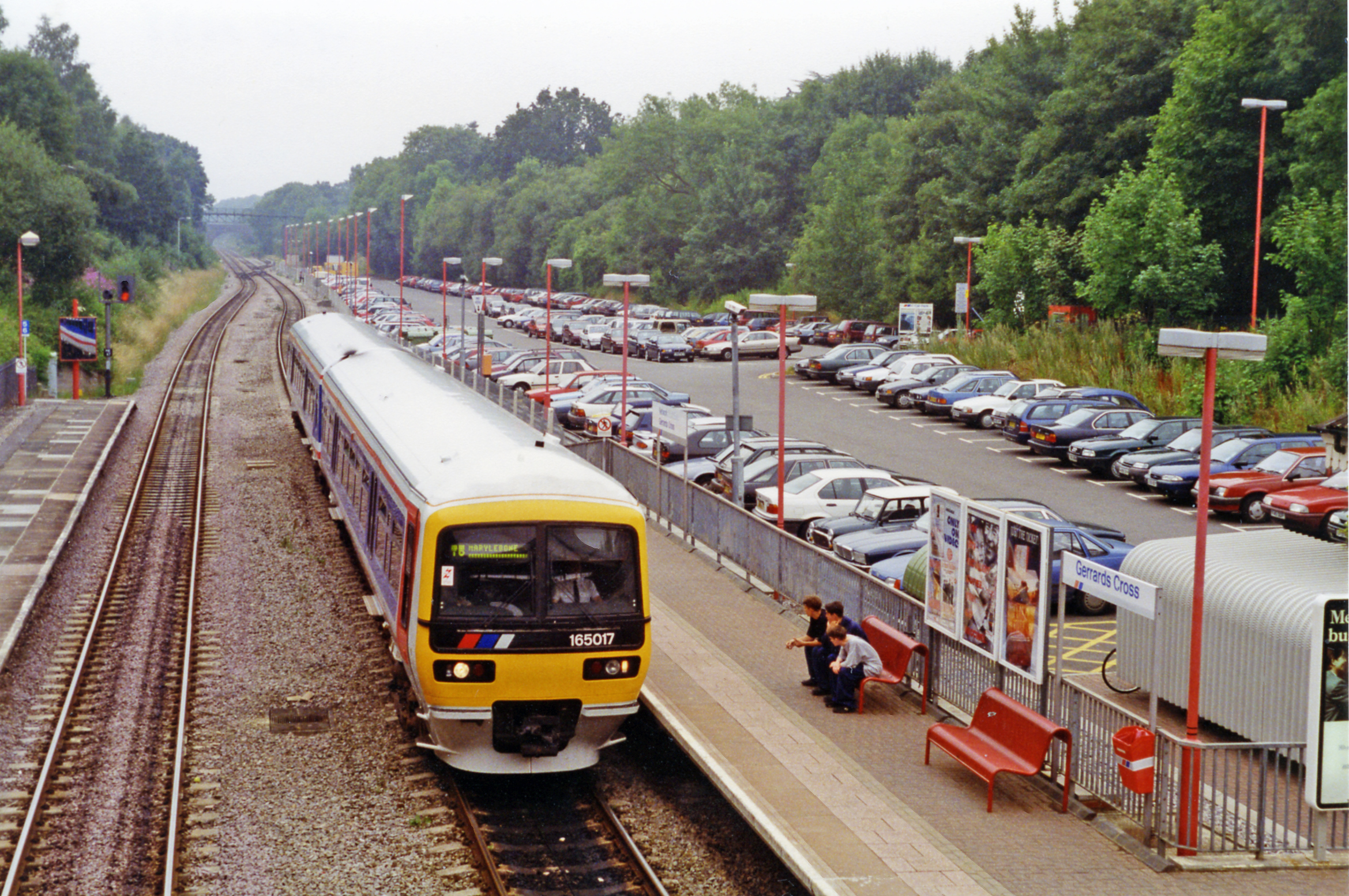 Gerrards Cross station, 1994. View NW from the footbridge, towards Prins Risborough etc.: ex-GW&GC Joint Railway, Paddington/Marylebone - High Wycombe - Princes Risborough - Banbury, Birmingham etc. (GW)/Leicester - Sheffield (GC). The ex-GC main line was closed 5/9/66. From March 1967, following the electrification of the WCML from Euston, the Paddington - Birmingham services were cut back progressively, then Birmingham trains were diverted via Oxford until 1980. Since then direct London - Banbury - Birmingham (Moor Street) services have run only to/from Marylebone. Until c. 1970 there were Fast lines between the Platform lines. The new Tesco Tunnel over the station would be largely behind the photographer here. The Up train is a Class 165 'Turbo' DMU on a Birmingham (Moor Street) - Marylebone service.